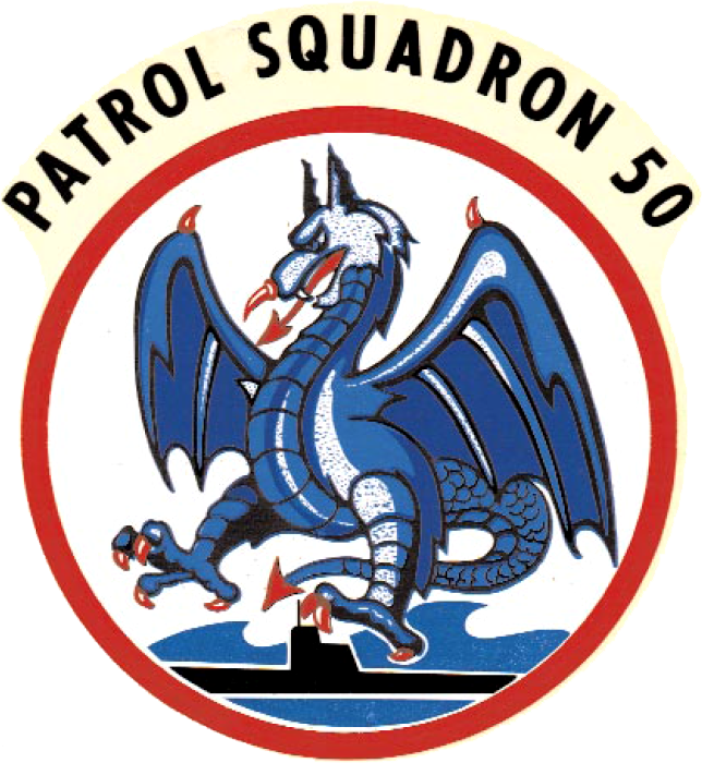 Insignia of the U.S. Navy Patrol Squadron 50 (VP-50), approved on 10 February 1953.